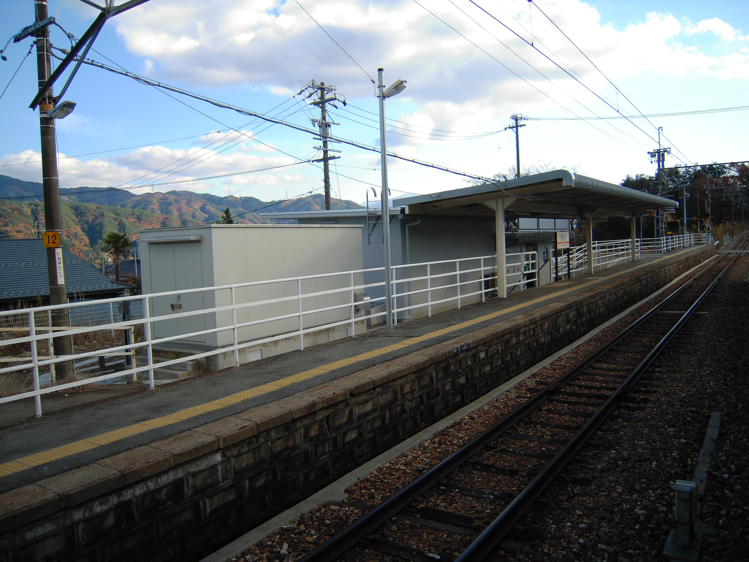 JR Iida Line Ina-Hongo Station, platform for Iida and Toyohashi